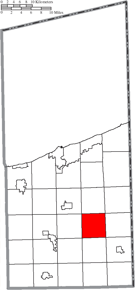 Map of the municipal and township boundaries of Ashtabula County, Ohio, United States, as of the 2000 census, with the location of Dorset Township highlighted. Township borders are shown only in unincorporated areas in order to differentiate incorporated and unincorporated areas more clearly.